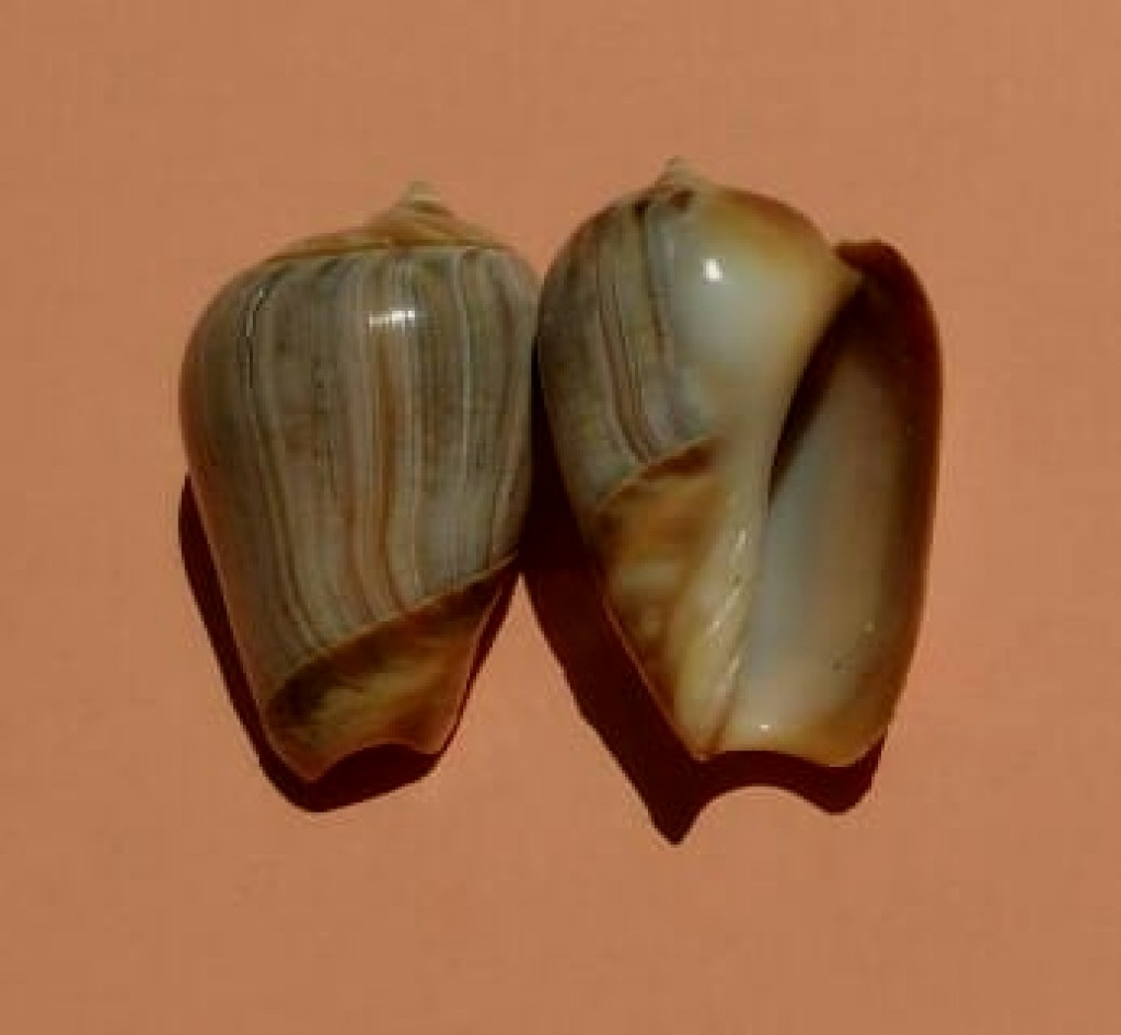 Two shells belonging to the mollusk Olivancillaria urceus (Röding, 1798) [1], collected in january, 14, 2019 at the Perequê beach, Guarujá, São Paulo, southeast Brazil.